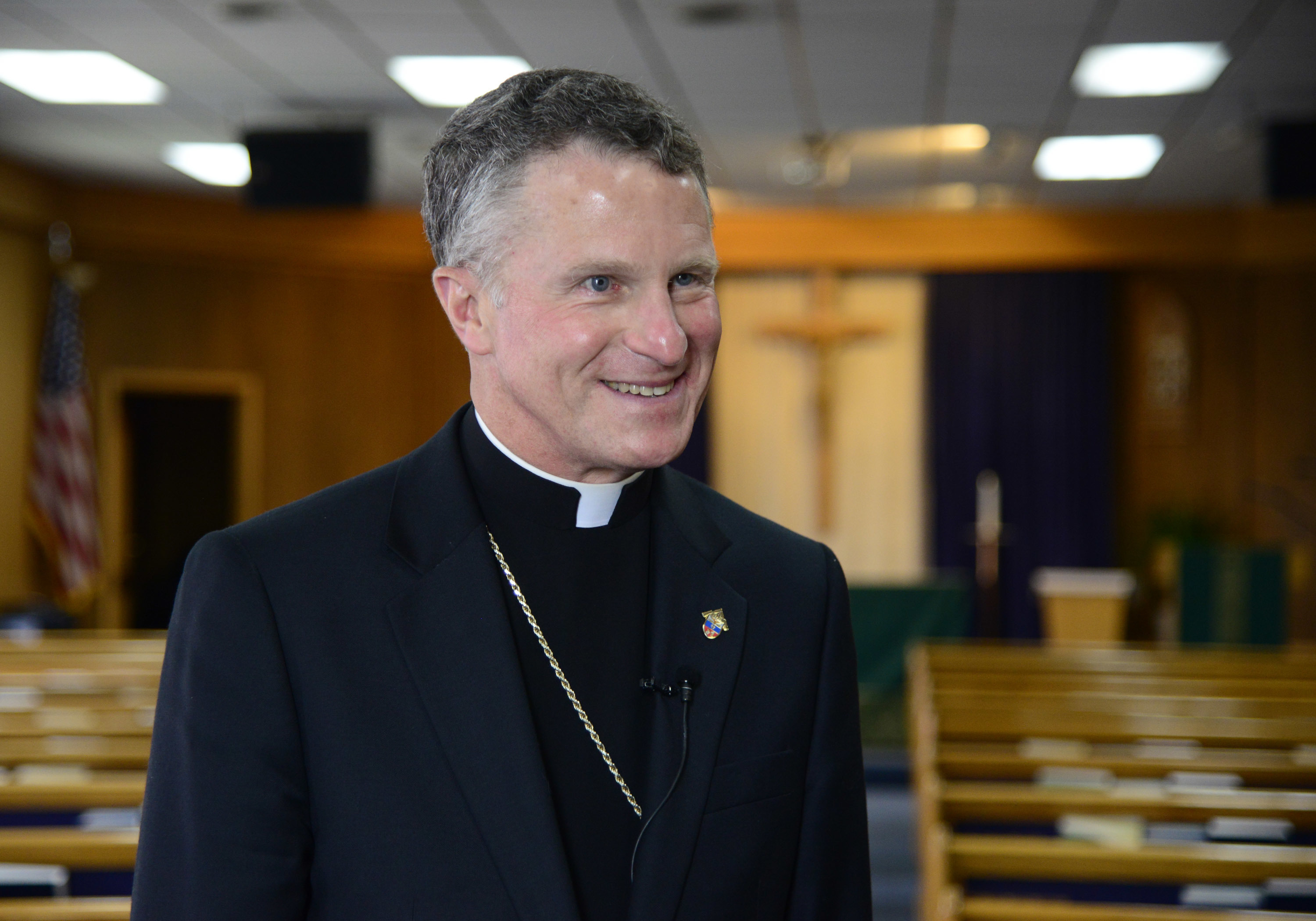 Archbishop Timothy Broglio, Archbishop of the Military Services, smiles during an interview at the chapel on Osan Air Base, Republic of Korea, Aug. 26, 2015. Broglio recently stopped by Osan AB, along with various military installations on the Korean peninsula to visit with service members and their families who are part of the Catholic community. (U.S. Air Force photo/Senior Airman Kristin High) Unit: 51st Fighter Wing Public Affairs